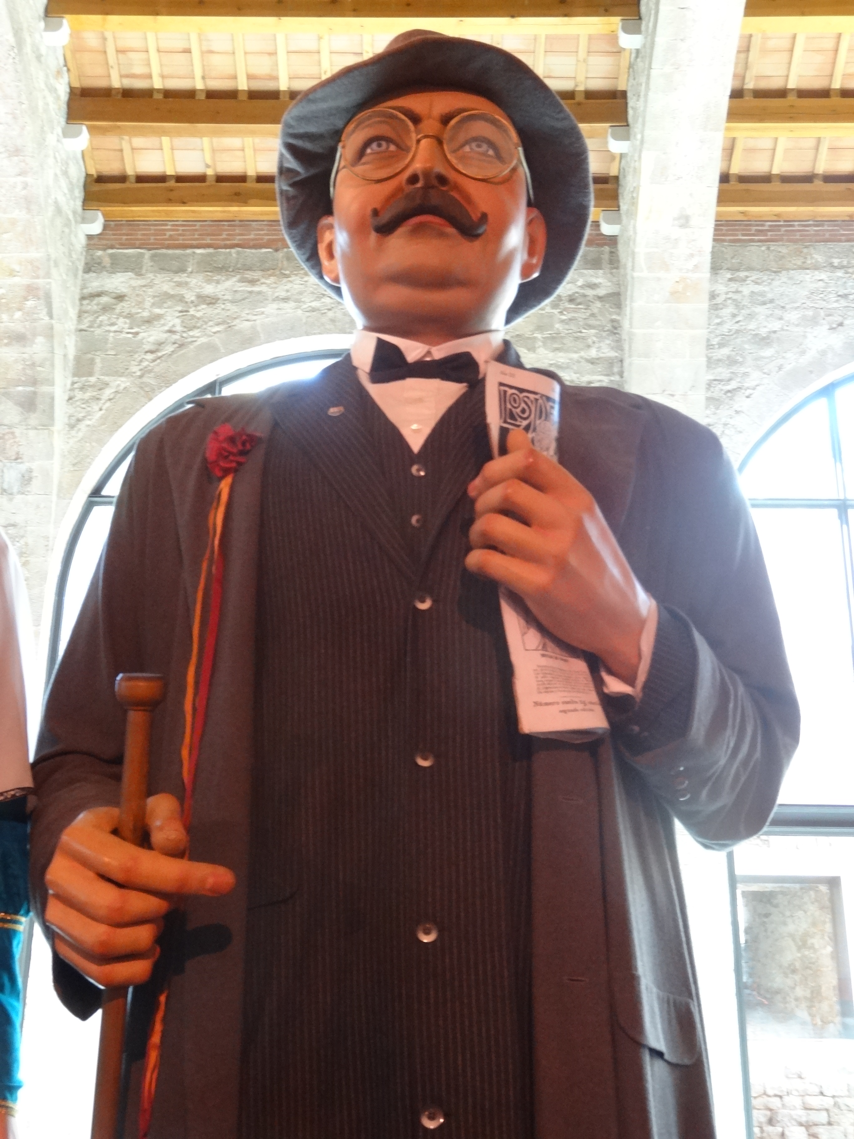 Exhibition of Giants at the Museu Marítim, Barcelona, 2013.